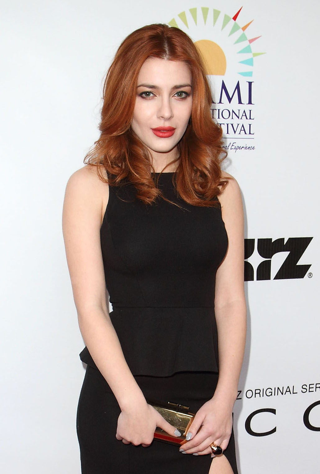 Actress Elena Satine at the 2012 Miami International Film Festival for the world premiere of the TV series Magic City, episode The Year of the Fin, at the Colony Theater, Miami Beach.